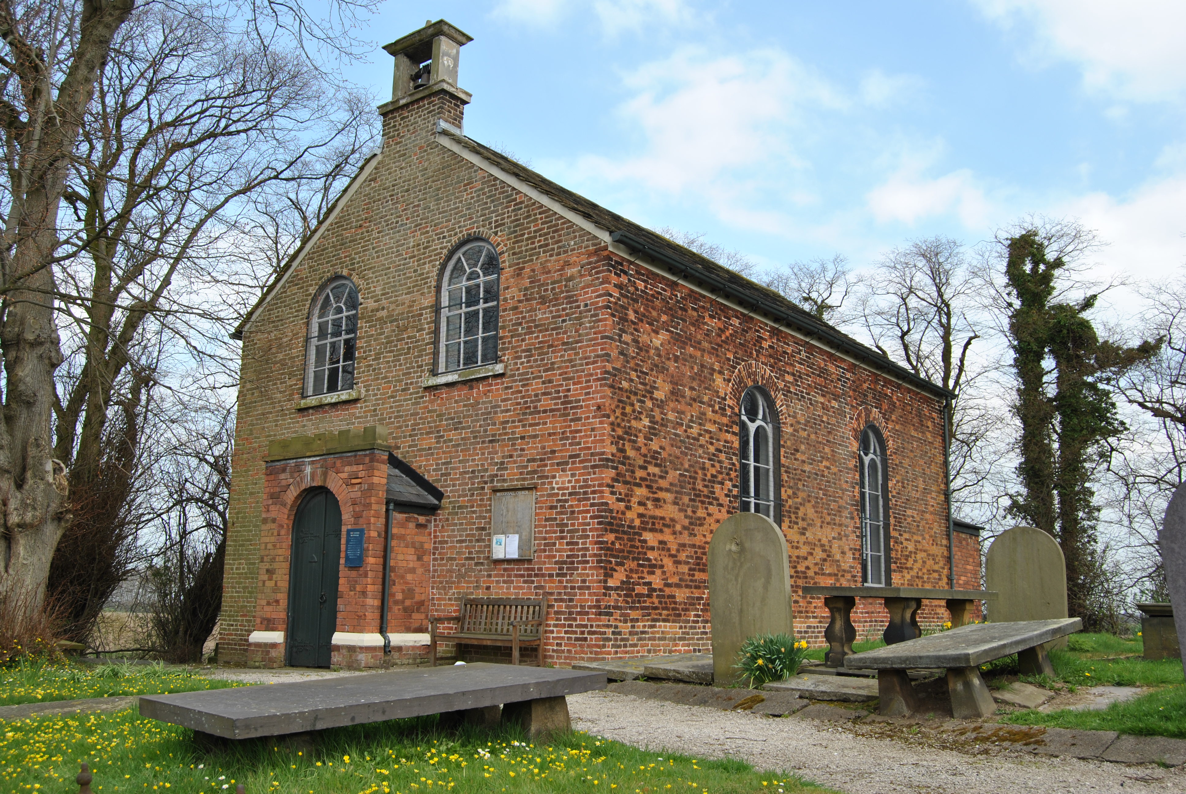 Becconsall Old Church, Hesketh Bank, Lancashire,seen from the southwest